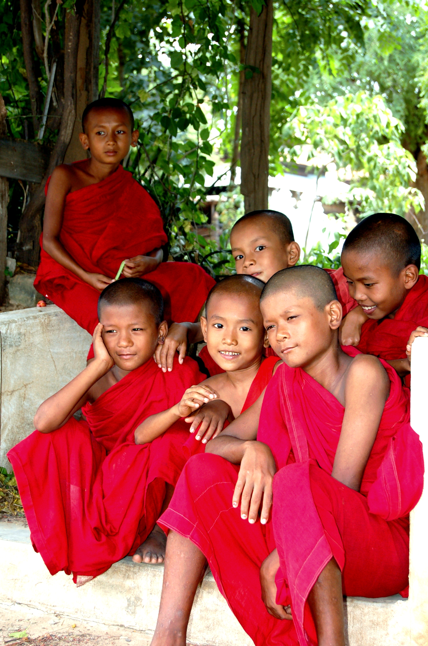 description:Young Buddhist monks in Myanmar. photographer: Worak photographer location:Belgium flickr_url: [1]